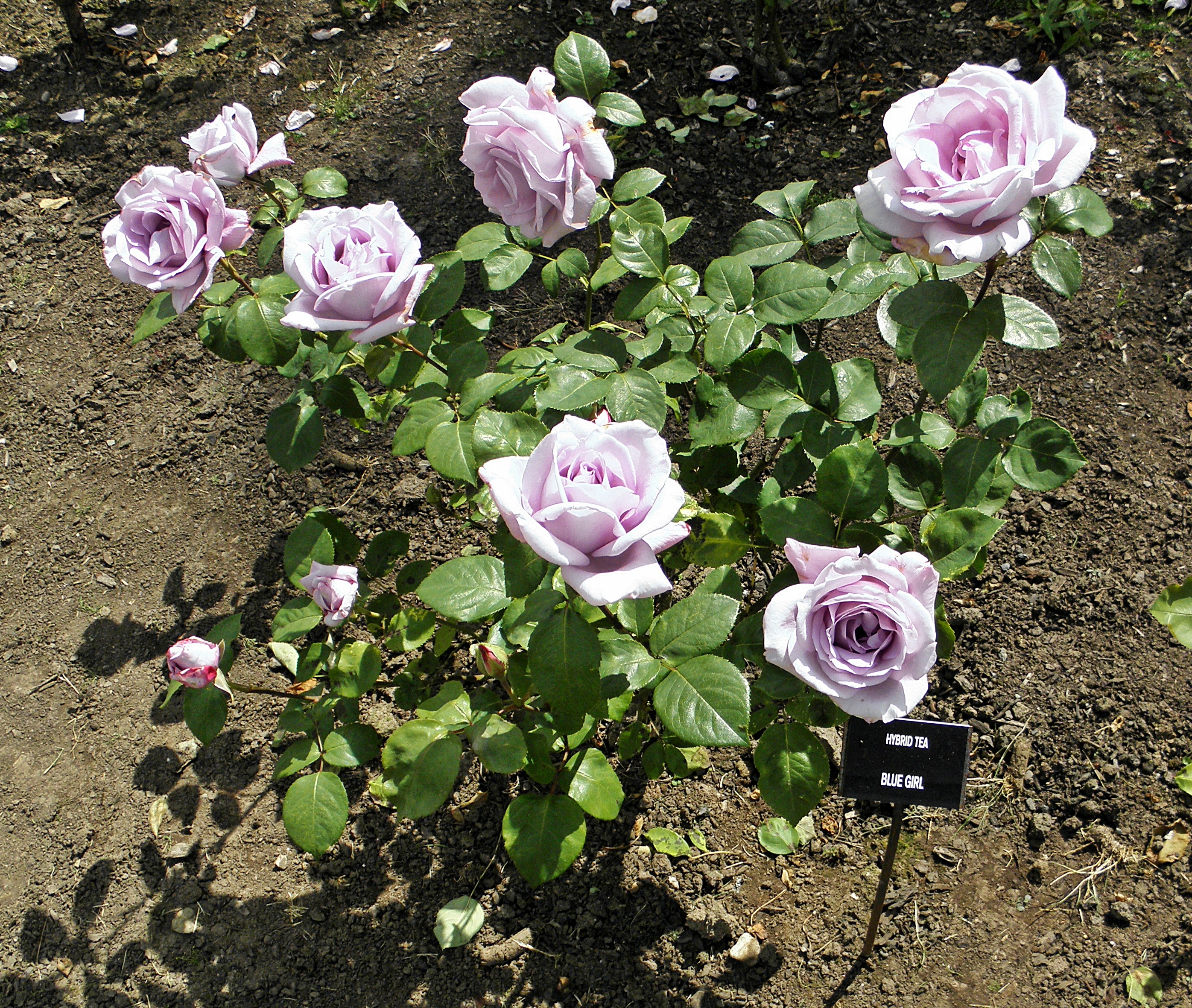 Hybrid Tea Rose 'Blue Girl'